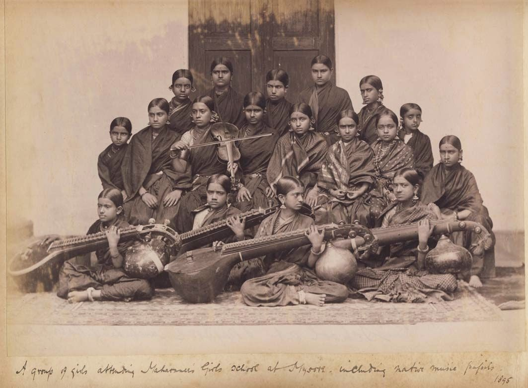 Group of girls of a music school, Mysore, India.